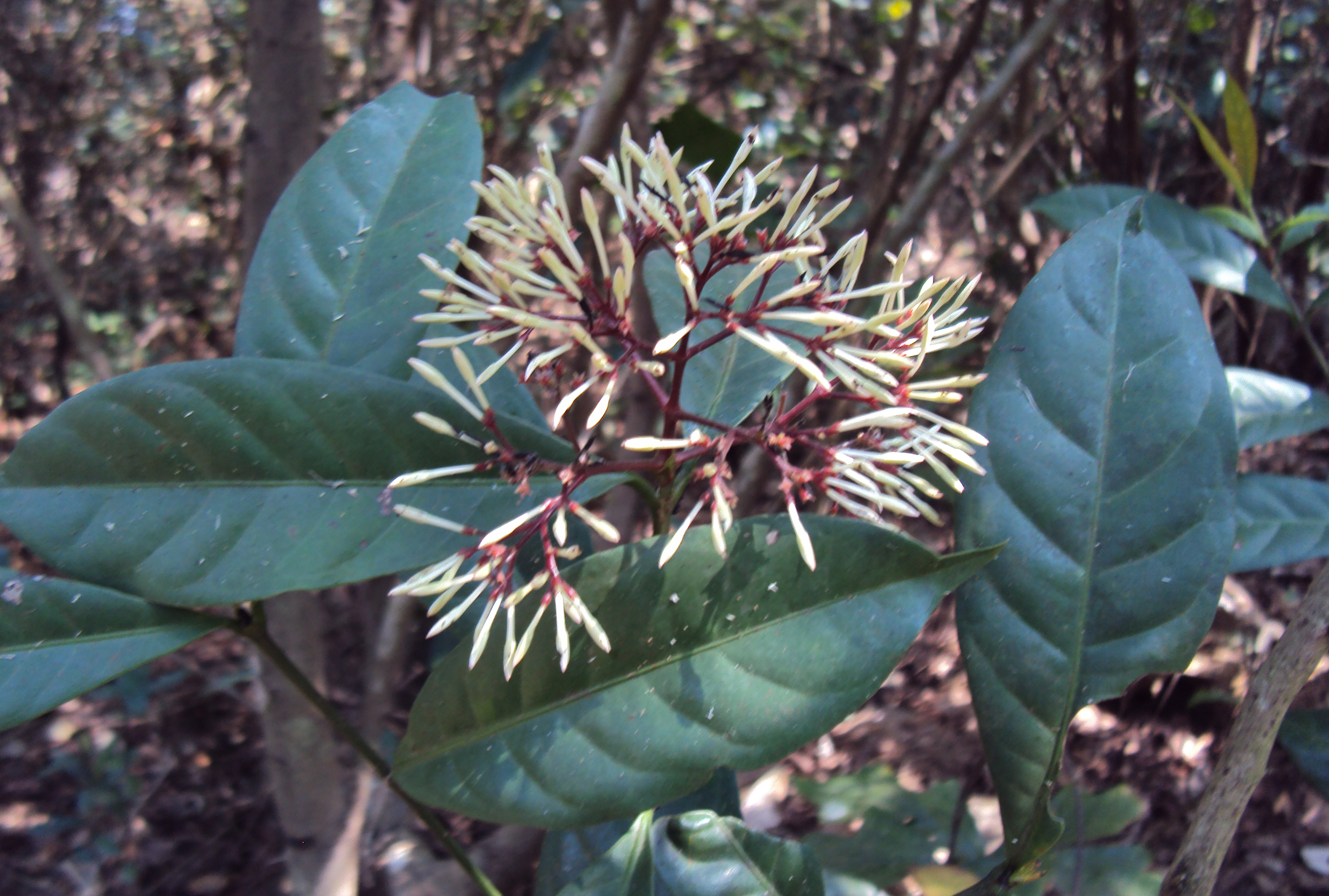 Ixora nigricans R.Br. ex Wight & Arn.